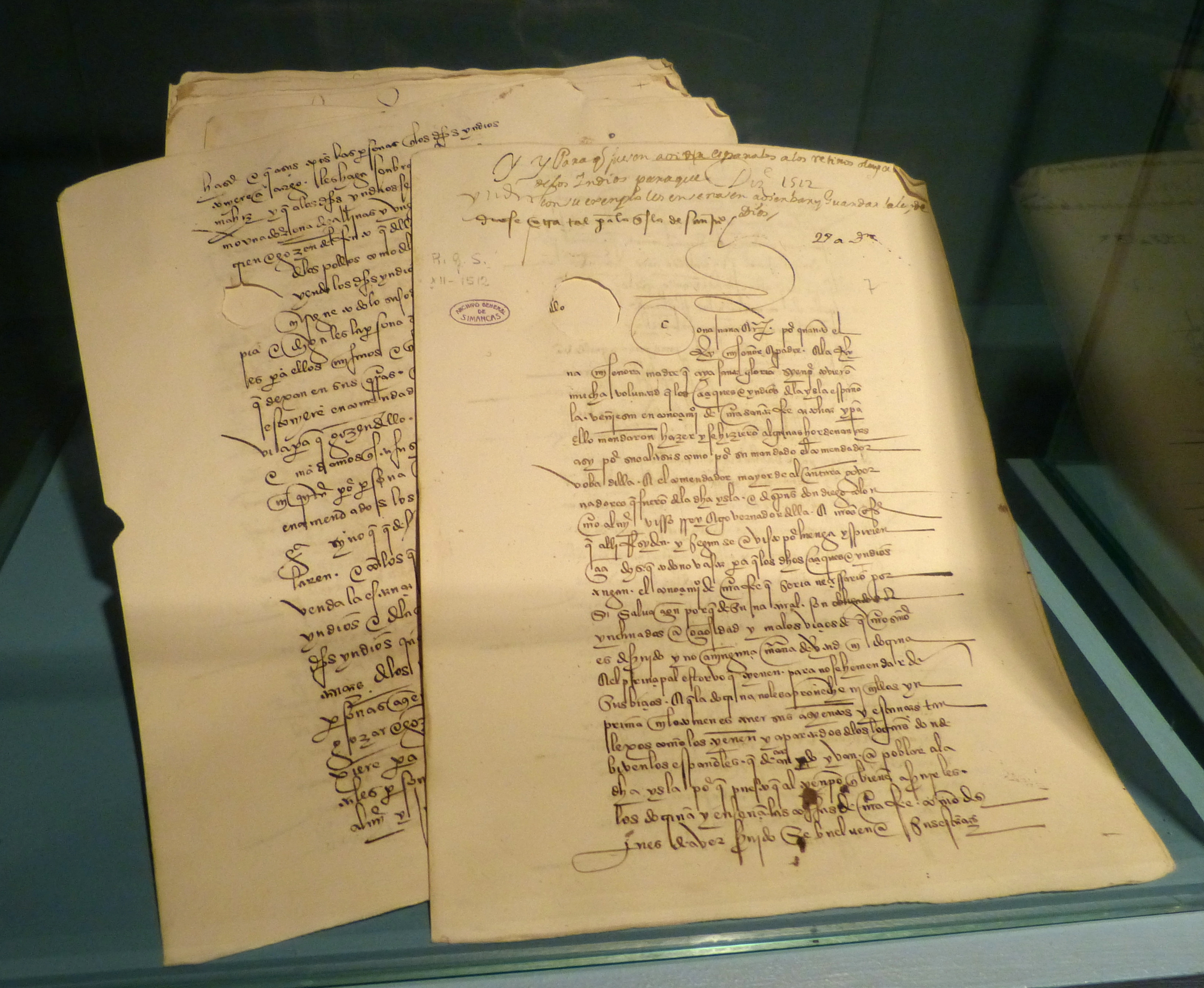 Las Palmas ( Gran Canaria ). Casa de Colon - Collections: Laws of Burgos ( 1512 ) by Ferdinand II of Aragon ( Replica from the Archivo General de Simancas )